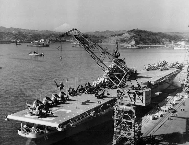 The U.S. Navy aircraft carrier USS Leyte (CV-32) loading aircraft at Yokosuka, Japan, for transportation to the United States, at the end of her Korean War combat tour on 24 January 1951. Several decommissioned frigates (PF) are moored in groups across the harbour background and snow-capped Mount Fuji is visible in the left distance.